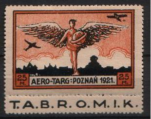 Poland, Michel I; Sanabria 501, mint. 1921 25m orange semi-official issue. Stamp issued by the Aero-Targ Company, in agreement with the Polish Ministry of Post & Telegraph. Aero-Targ stamps had to be bought for airmail in addition to the normal express postage rate, payable by usage of regular Polish stamps. The stamp was designed by Wilhelm Rudy (initials W.R. on the stamps) and crudely lithographed. Perforated 11.25 but also known imperforated. This 25mk value shows Icarus against Poznan. Attached to each stamp was an advertising label, inscribed T.A.B.R.O.M.I.K., for vodka factory TAdeusz BROnislaw MIKołajczyk. Forged stamps are known. The first flights from Poznan to Gdansk and to Warsaw were on 29 May 1921. The first return flight from Warsaw to Poznan was on 31 May 1921. There were daily return flights until 16 June 1921. A special winged postmark was used from May 29 thru 16 June 1921 at the Poznan Fair Flights. Postmarks with dates after 16 June 1921 are fake.